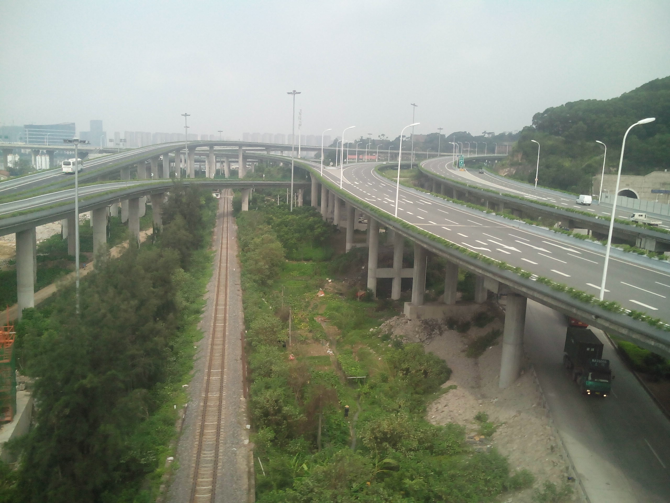 201508 Fuzhou–Mawei Railway